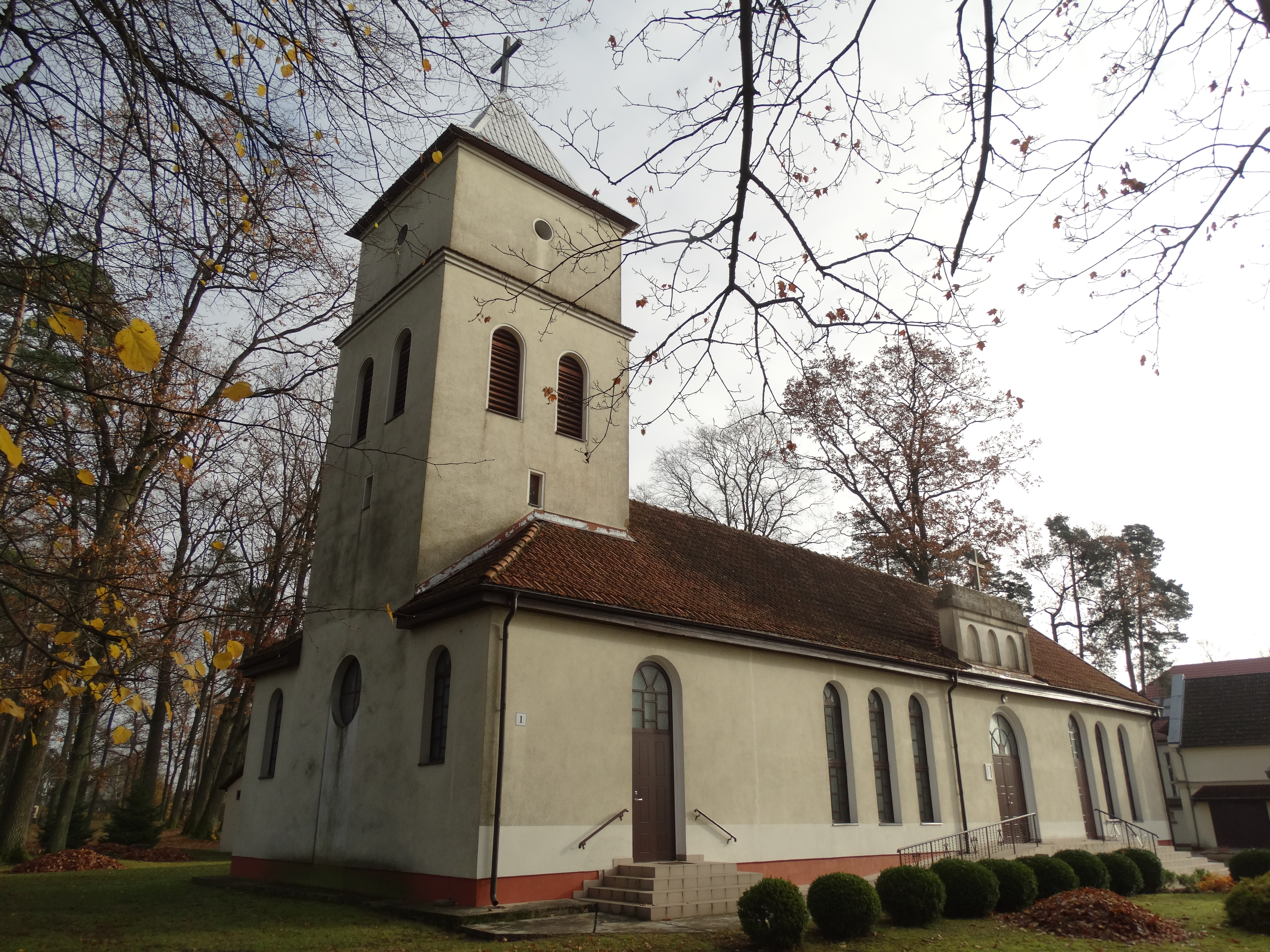 Evangelical Lutheran Church, Pagėgiai, Lithuania